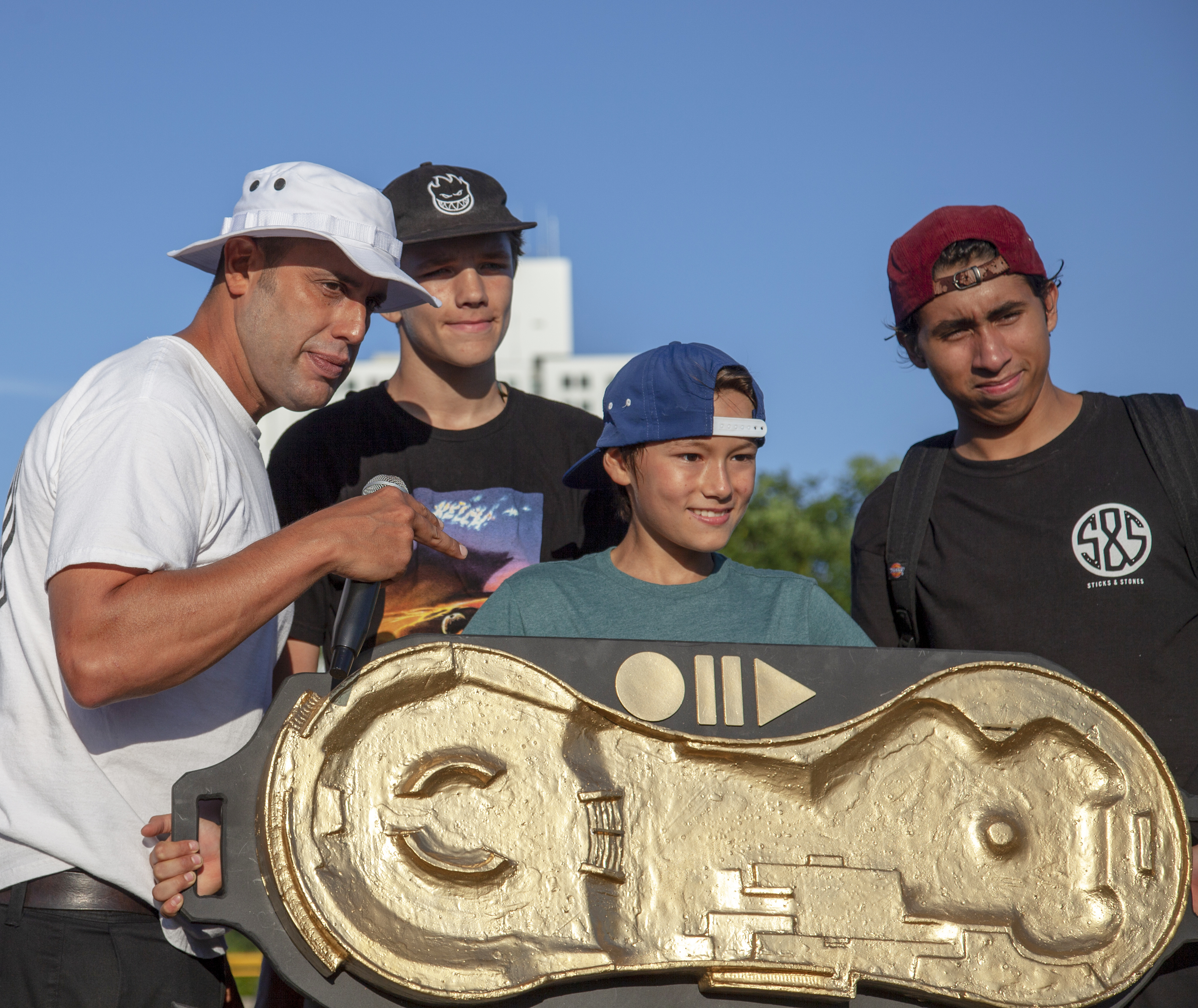 First place winner Jiro Platt surrounded by Steve Rodriguez, Cooper Qua, and Nicholas Ramos at the 2019 Battle at the Beach - Far Rockaway Skatepark, Queens, NY